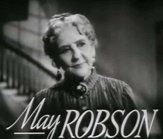 Cropped screenshot of May Robson from the trailer for the film Four Daughters